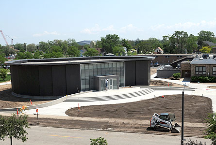 KAM WIP